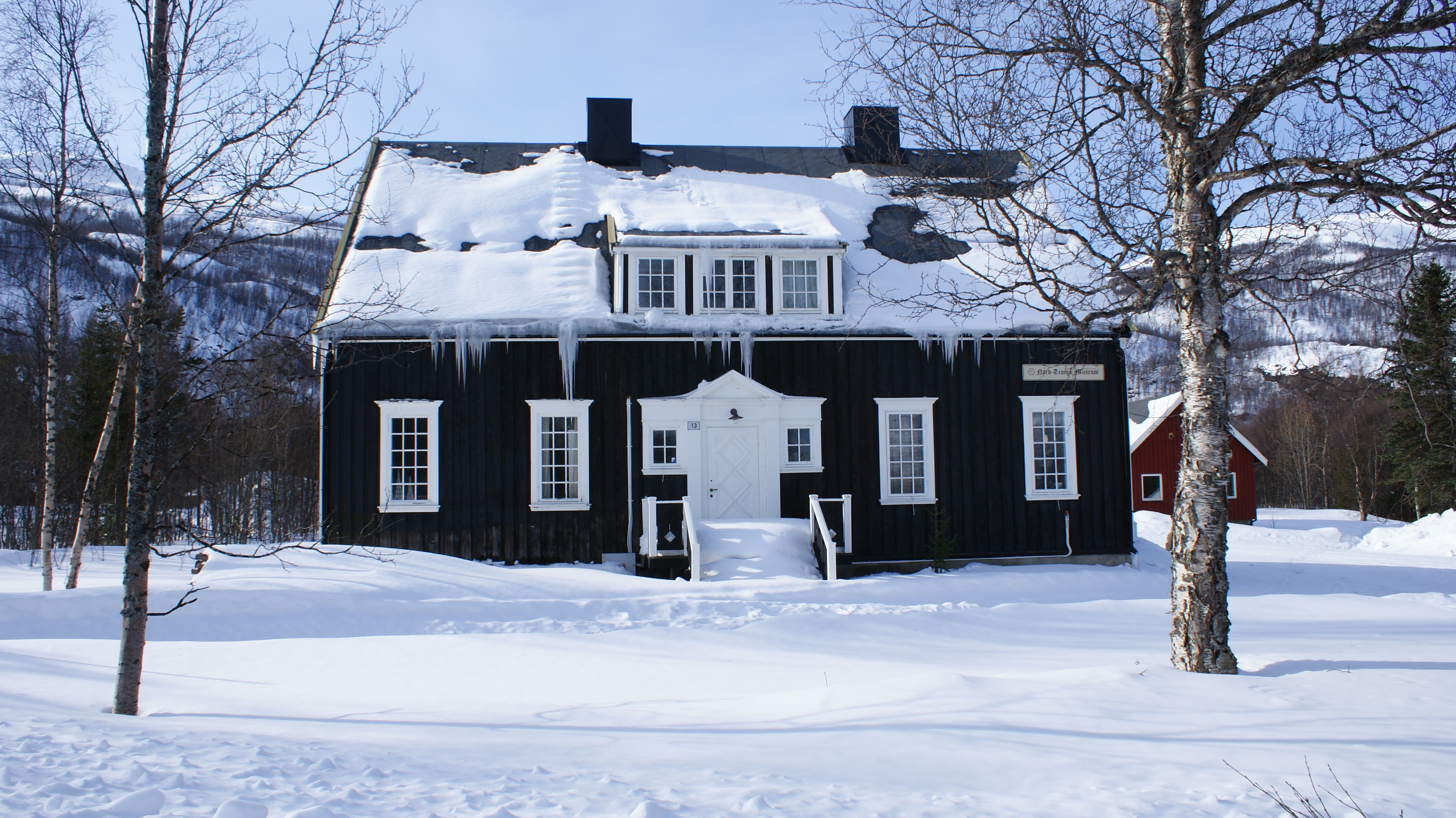 Sørkjosen, Nordreisa, Troms, Norway. One of the preserved buildings part of the open-air "Nord-Troms Museum" scattered across six municipalities in the region.